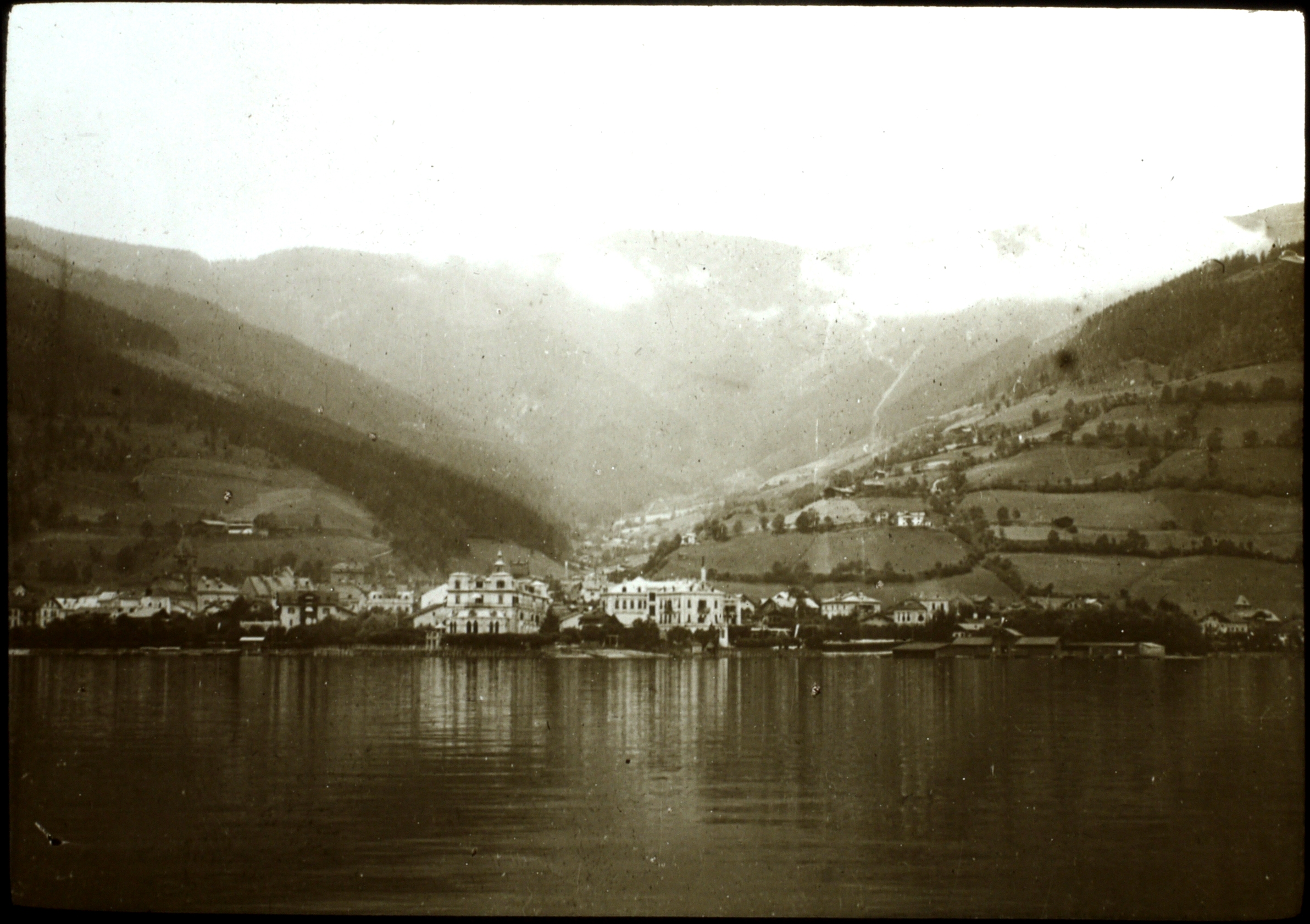 JULY 1903 - Zell-am-See, and Schmittenhohe. Photo by A.E.Hasse, Baildon, Yorkshire. Original on 6x6 glass plate diapositive